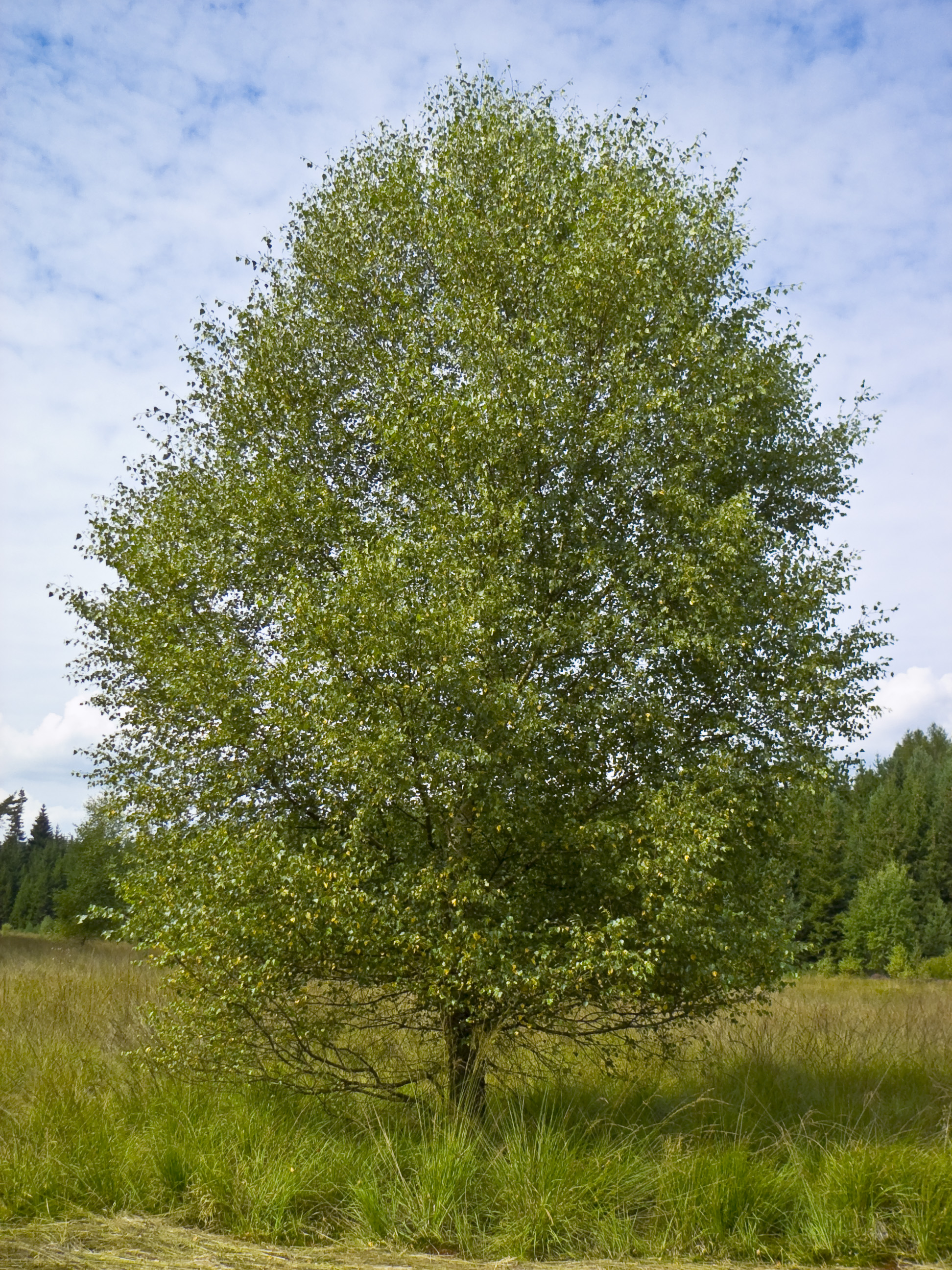 Downy Birch (Betula pubescens), Location: Franzosenwiesen in the Burgwald, Hesse, Germany